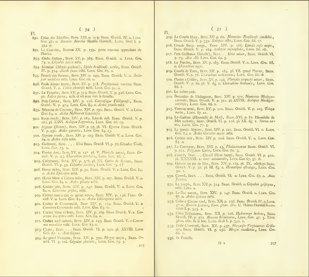 Pieter Boddaert "Planches enluminees" screenshot, pp 54 - 55